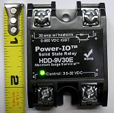 Solid State Relay